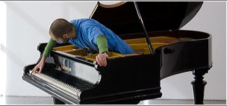 Stop Repair Prepare at Gladstone Gallery 2009